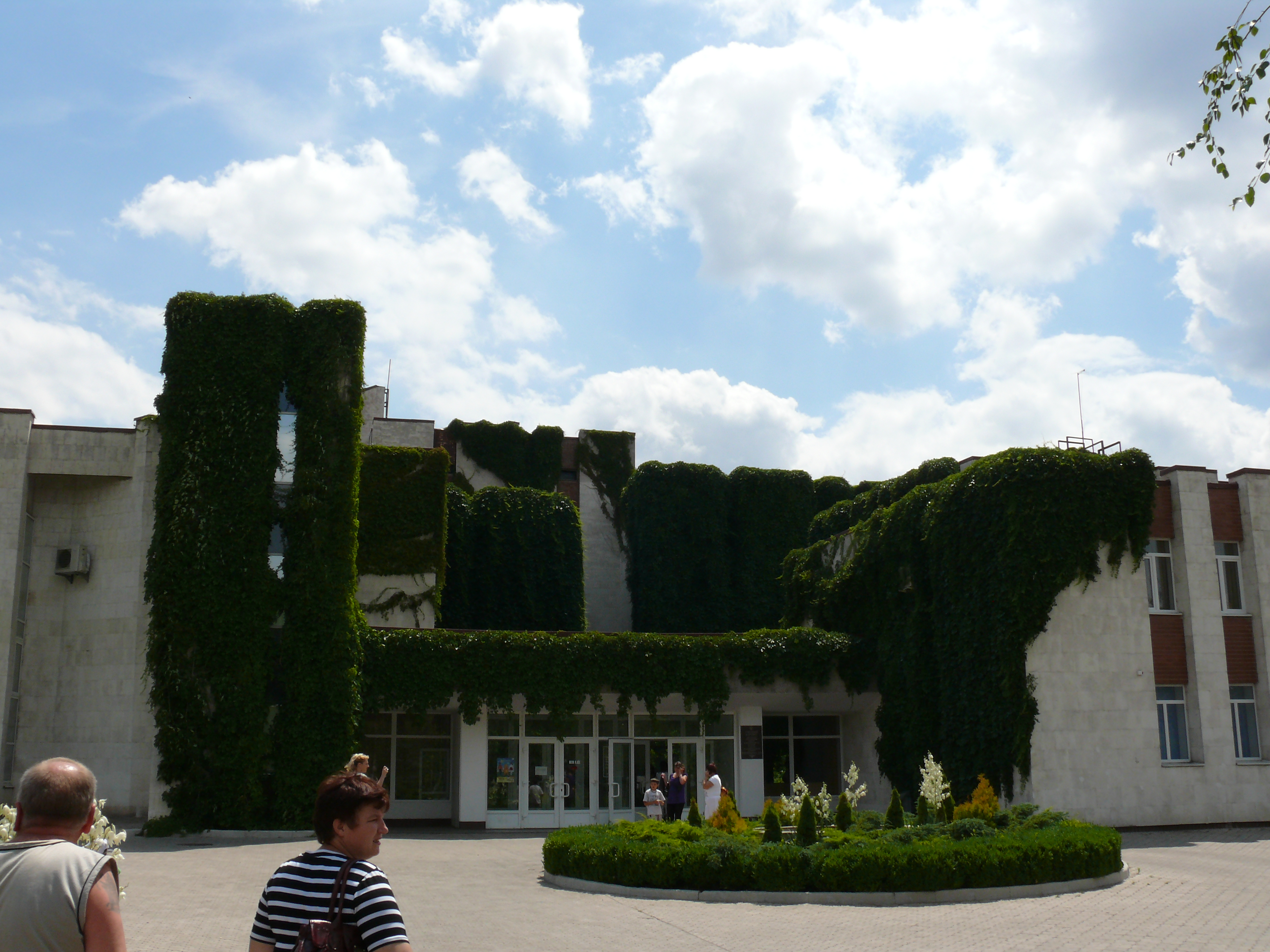 Zaporizhia children's railway